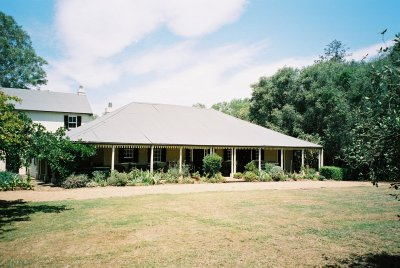 Denbigh, Cobbitty: Front elevation of Denbigh homestead.